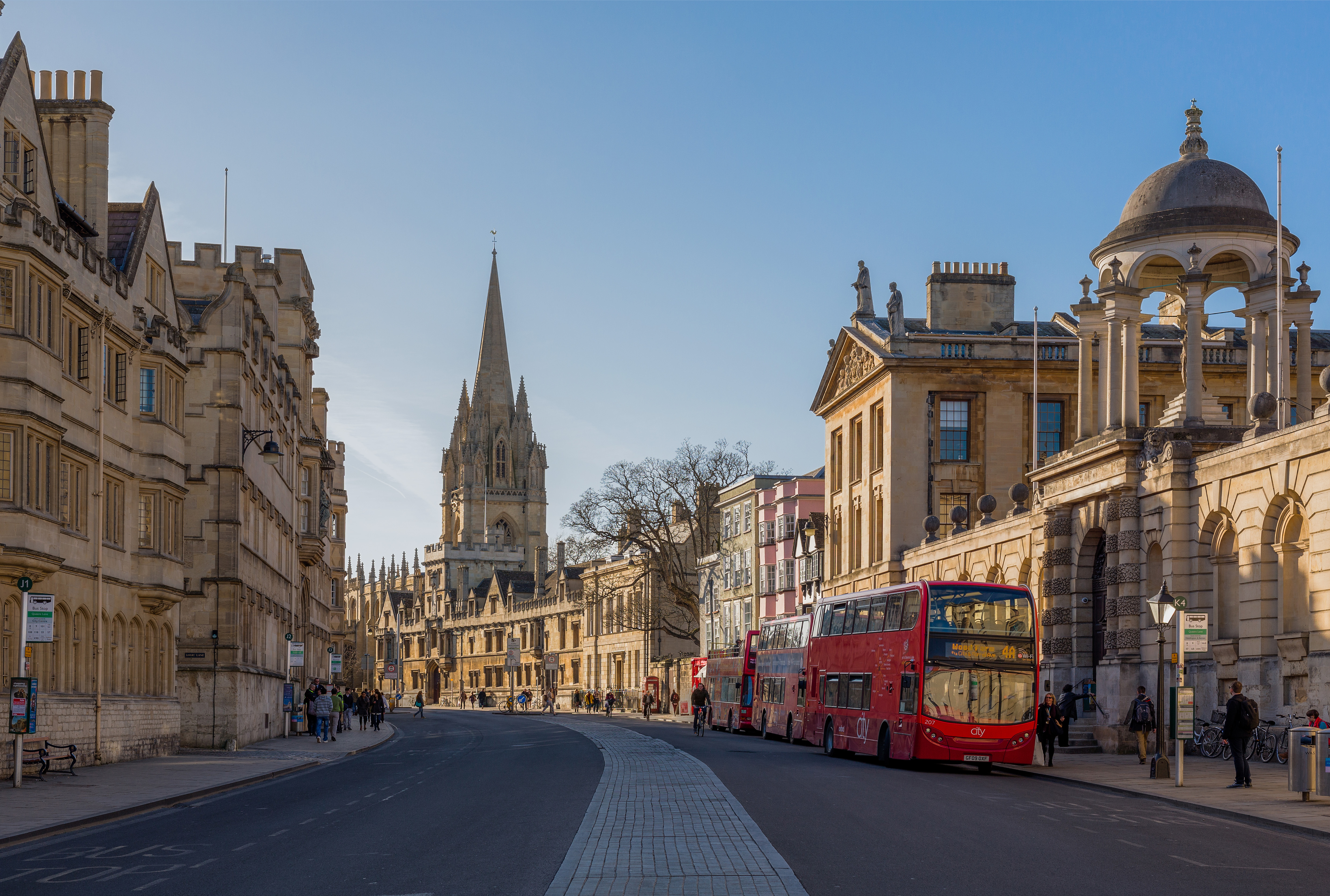 View west along part of High Street, Oxford. The Queen's College is on the right. All Souls' College and the tower and spire of the University Church of St Mary the Virgin are ahead. University College is on the left.